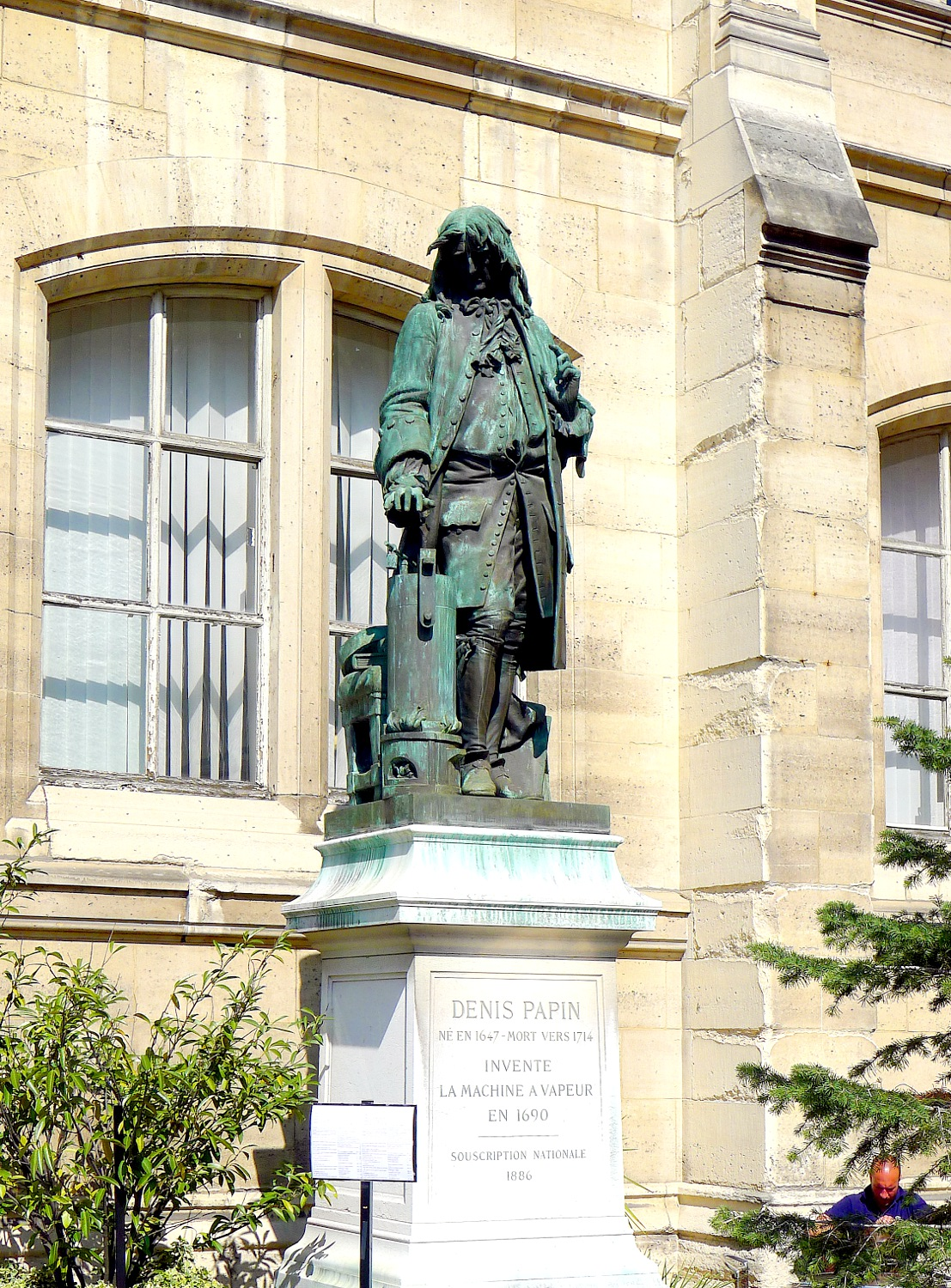 Conservatoire national des arts et métiers (Denis Papin statue by Aimé Millet) - Paris